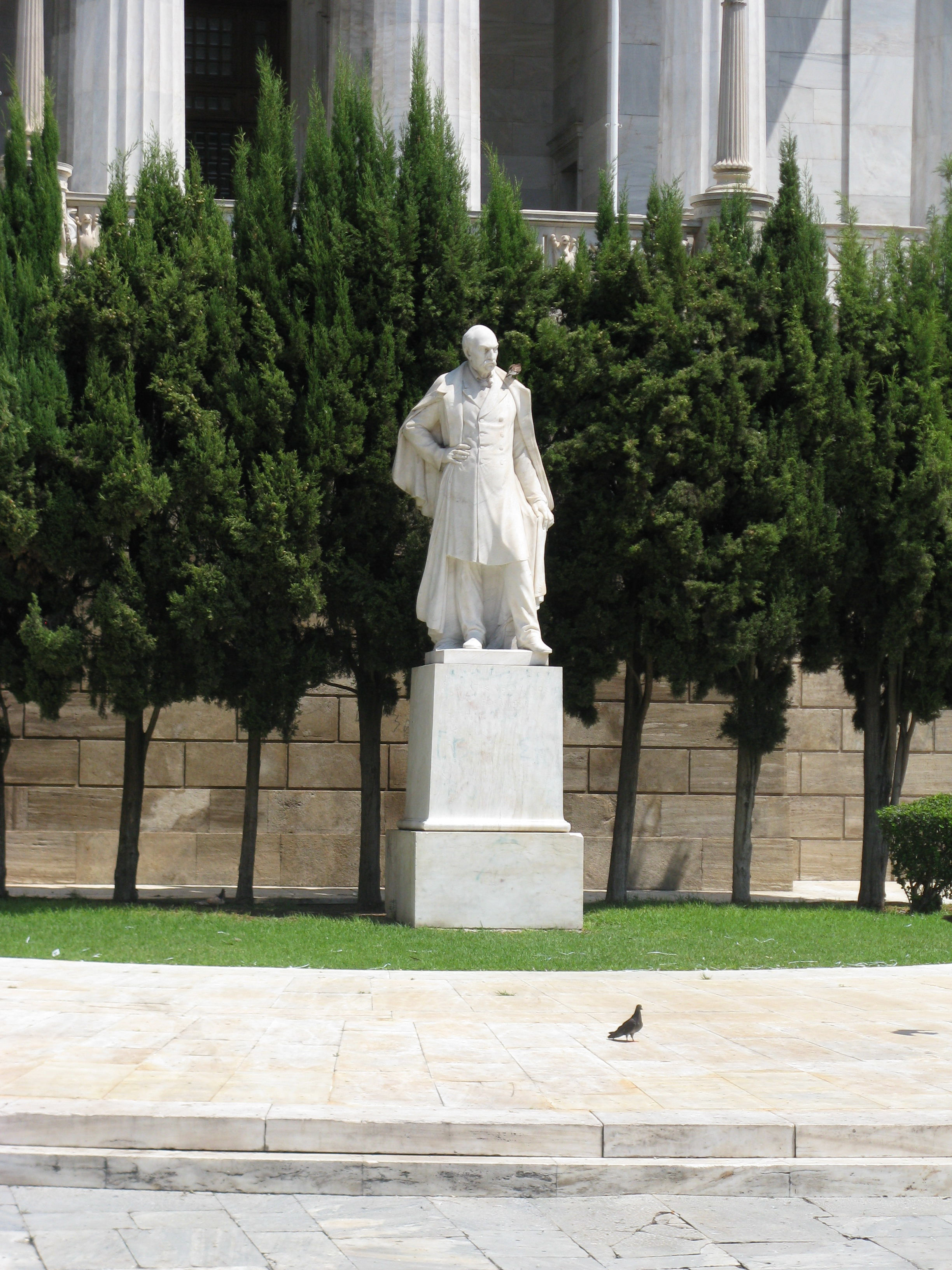 Statue of Panayis Atanas Vagliano at the entrance to the National Library in Athens